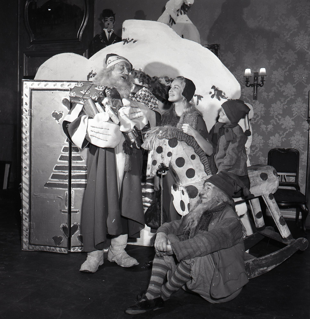 Image from National Archives of Norway's Flickr-Album [ "Riksarkivets julekalender 2011/National Archives advent calendar 2011 " ] (all images marked with "No known copyright restrictions")